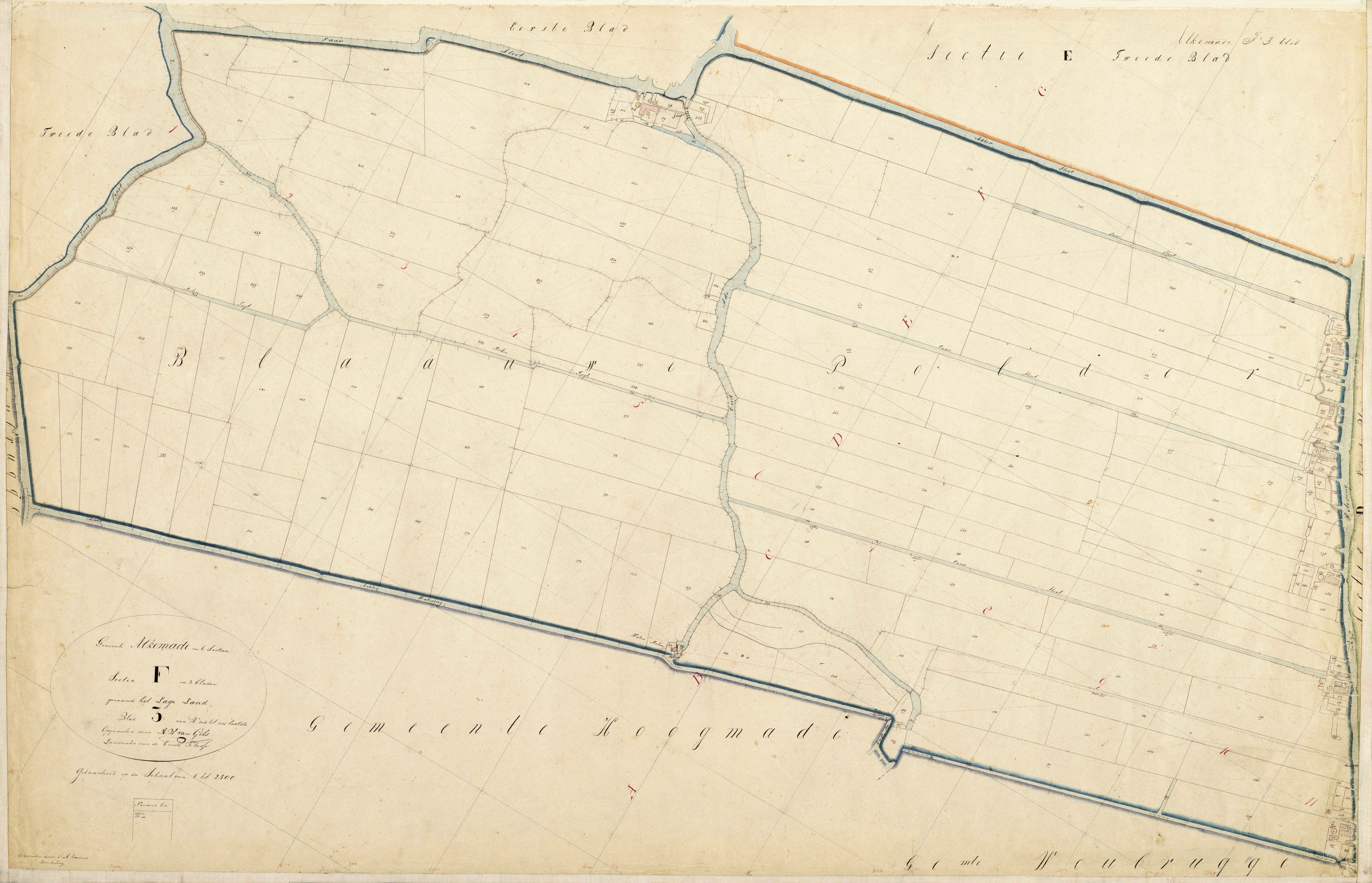 Cadastral map from 1828 of the (former) municipality of Alkemade (Province of South Holland, Netherlands), Section F (called het Lage Land), Sheet 3. The map shows the Blauwe Polder (Blue Polder) and most of its surrounding waterways, such as the Zuid Zijder Vaart, Vaarsloot, Achterwatering, Rijp Wetering, and Akkersloot.